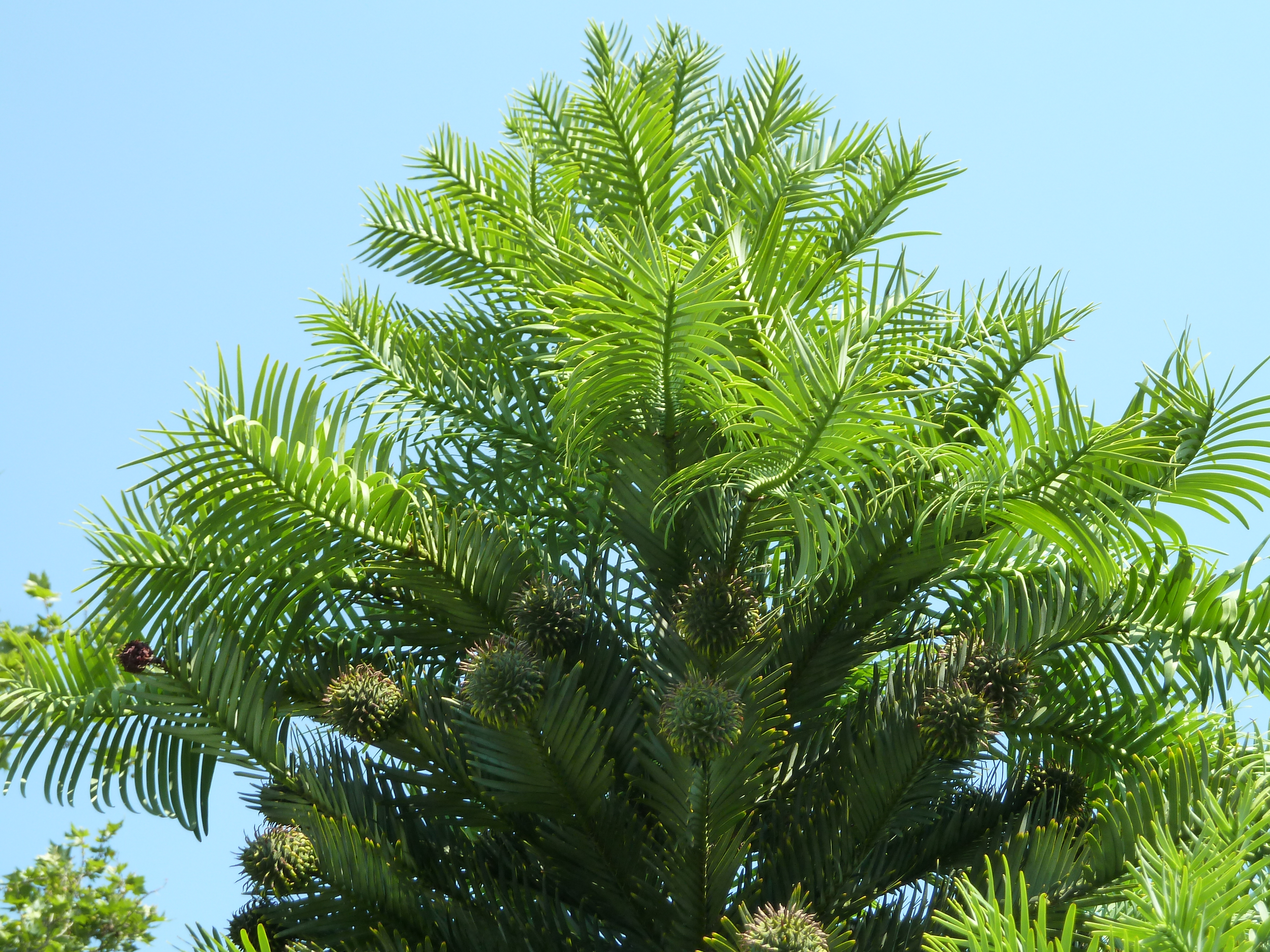 Kew Gardens Wollemi Pine (Wollemia nobilis), London